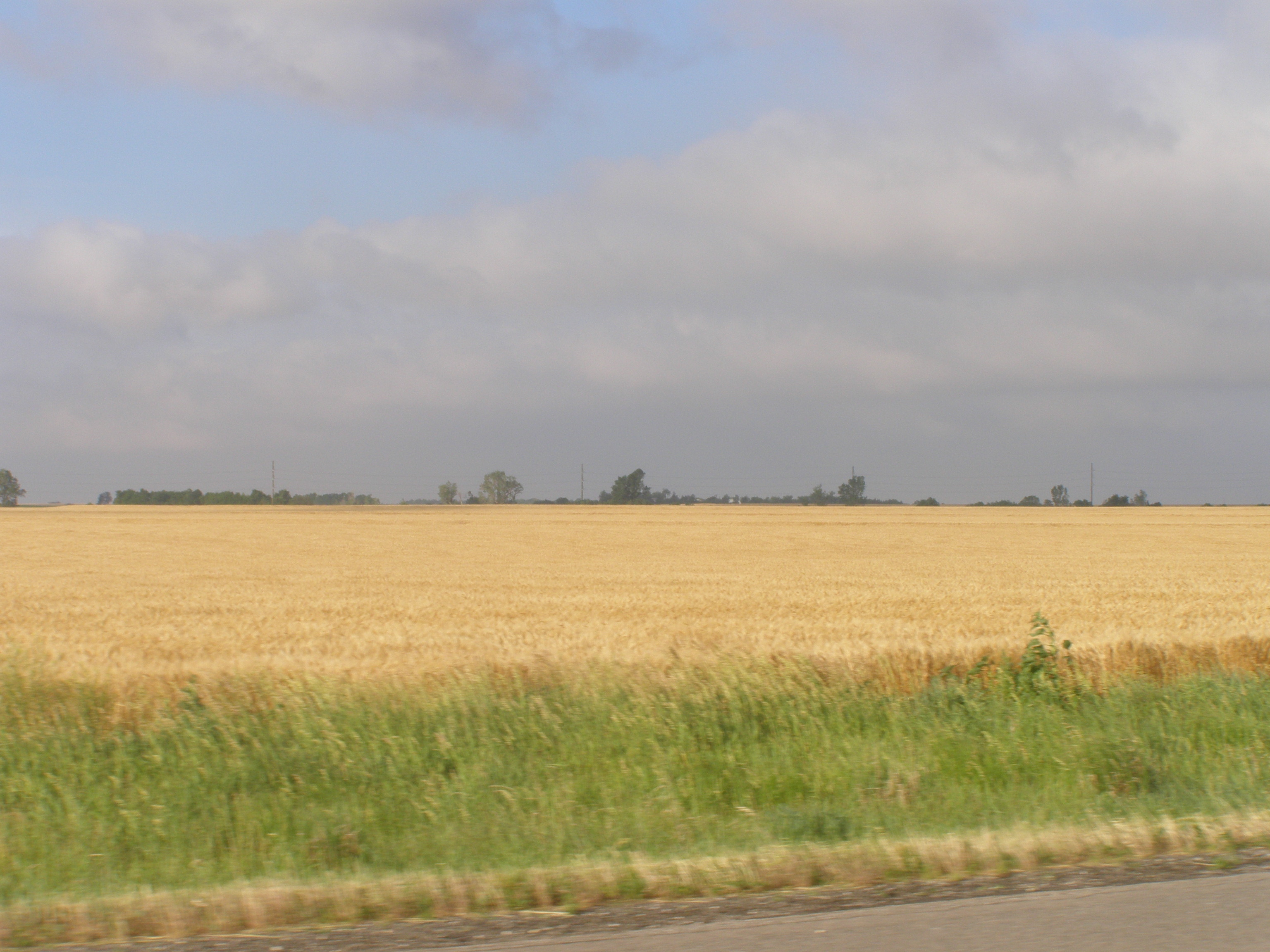 Wheat field in Central Kansas.